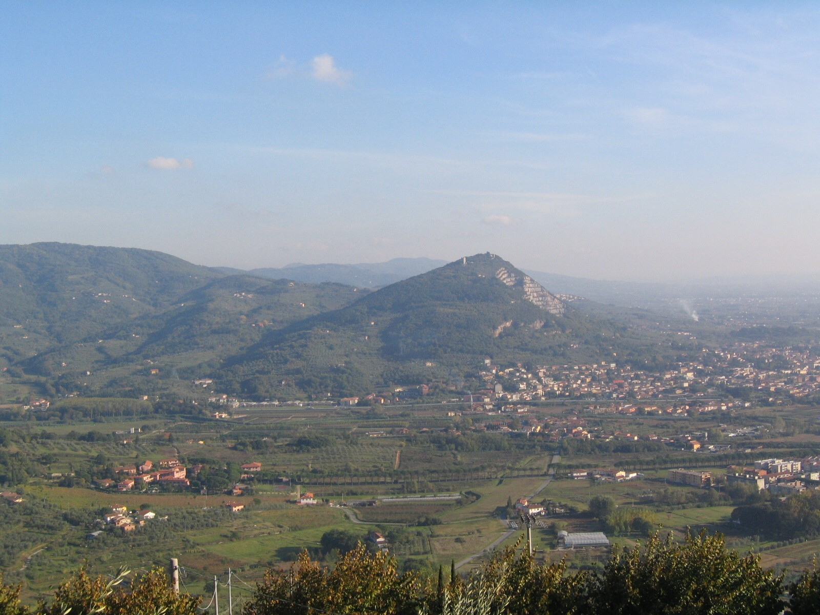 View of Monsummano Terme (central hill is Monsummano Alto), from Montecatini Terme, Montecatini Alto